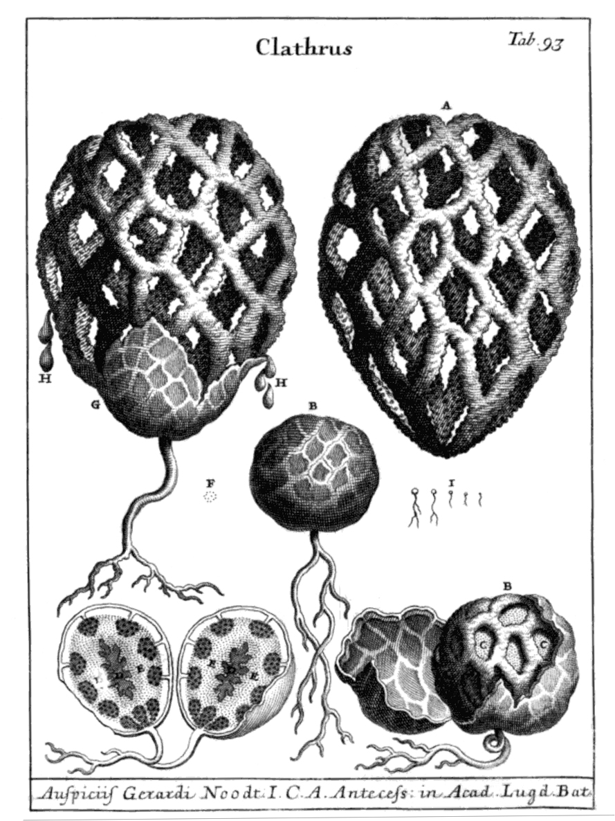 Drawings of the fungus Clathrus ruber.